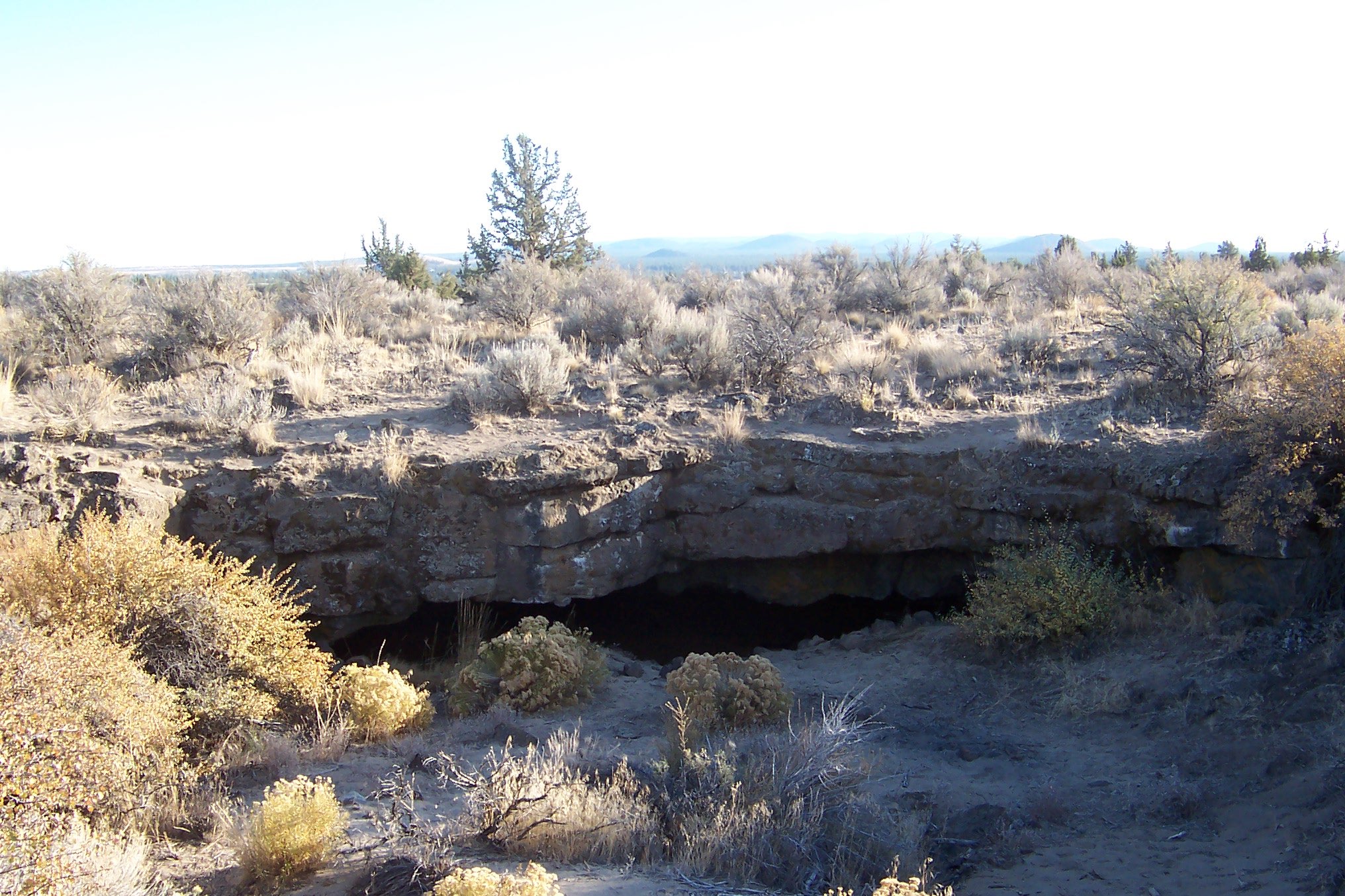 Entrance to Vulture Cave of the Horse Lava Tube System located near Bend, Oregon.